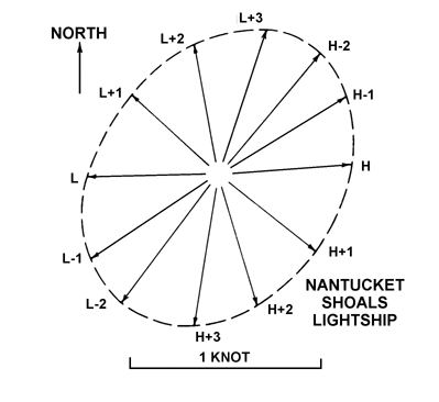 figure 914a of APN2002